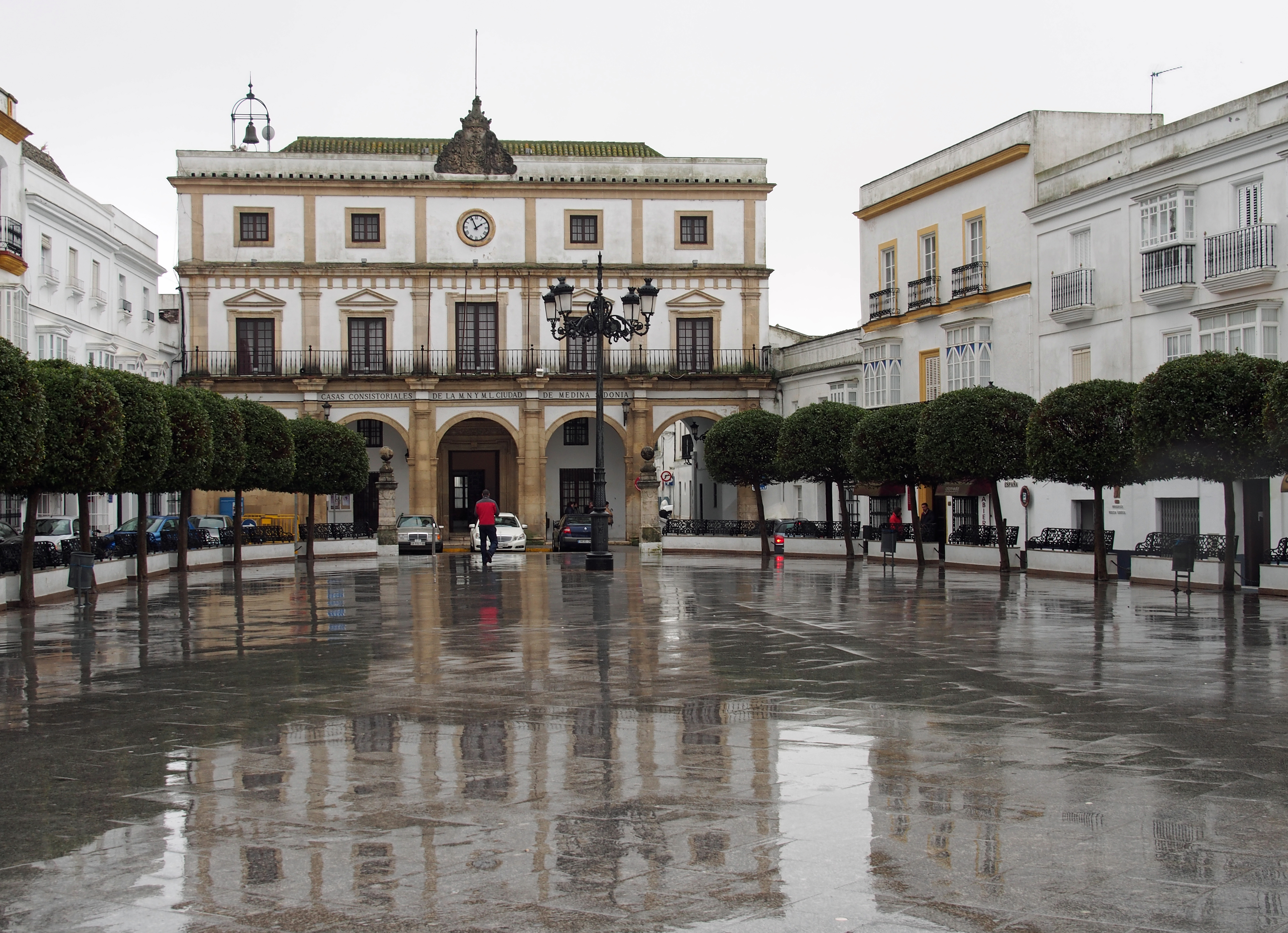 Plaza of Medina-Sidonia, Cádiz, Spain